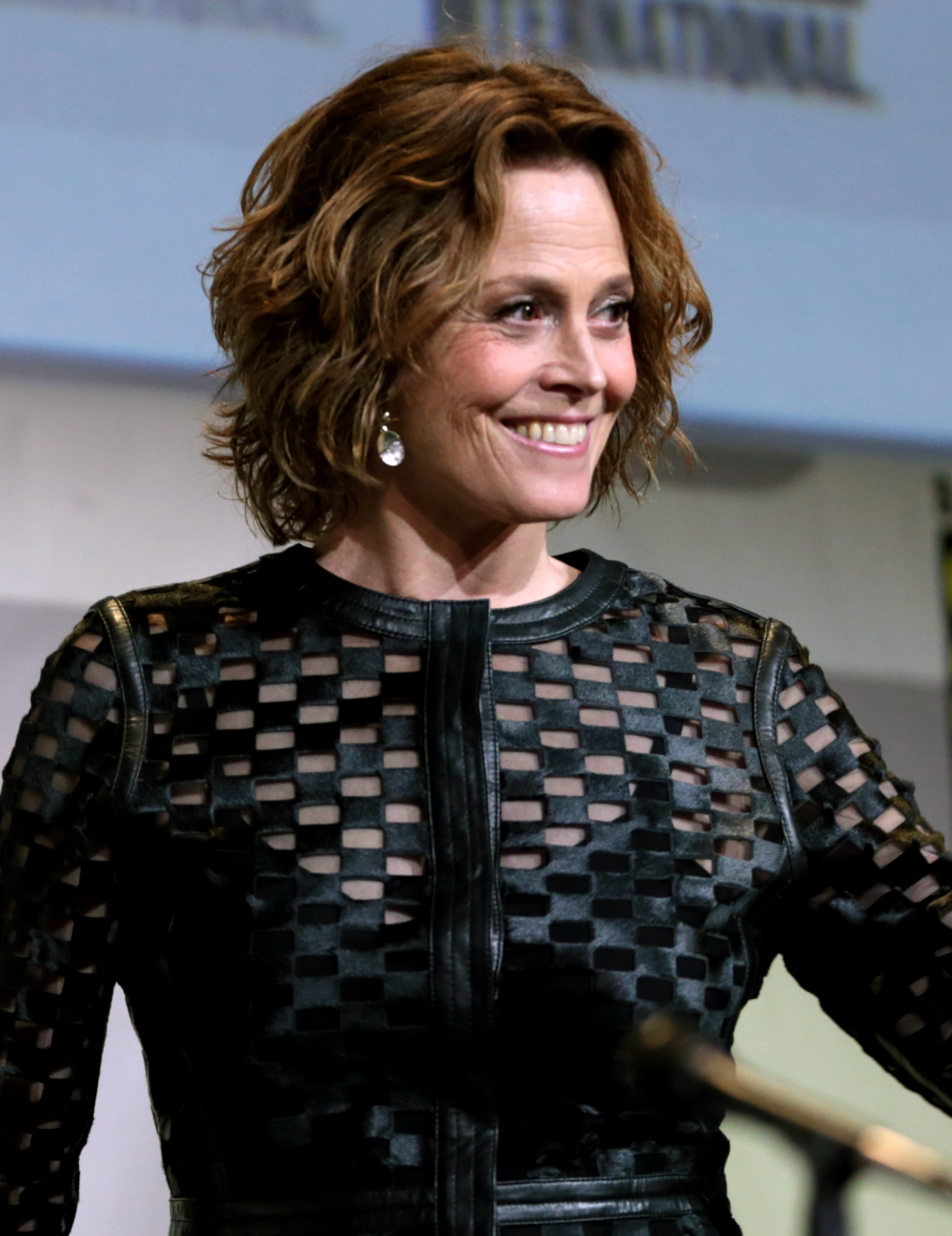 Sigourney Weaver speaking at the 2016 San Diego Comic Con International, for "Aliens: 30th Anniversary", at the San Diego Convention Center in San Diego, California.